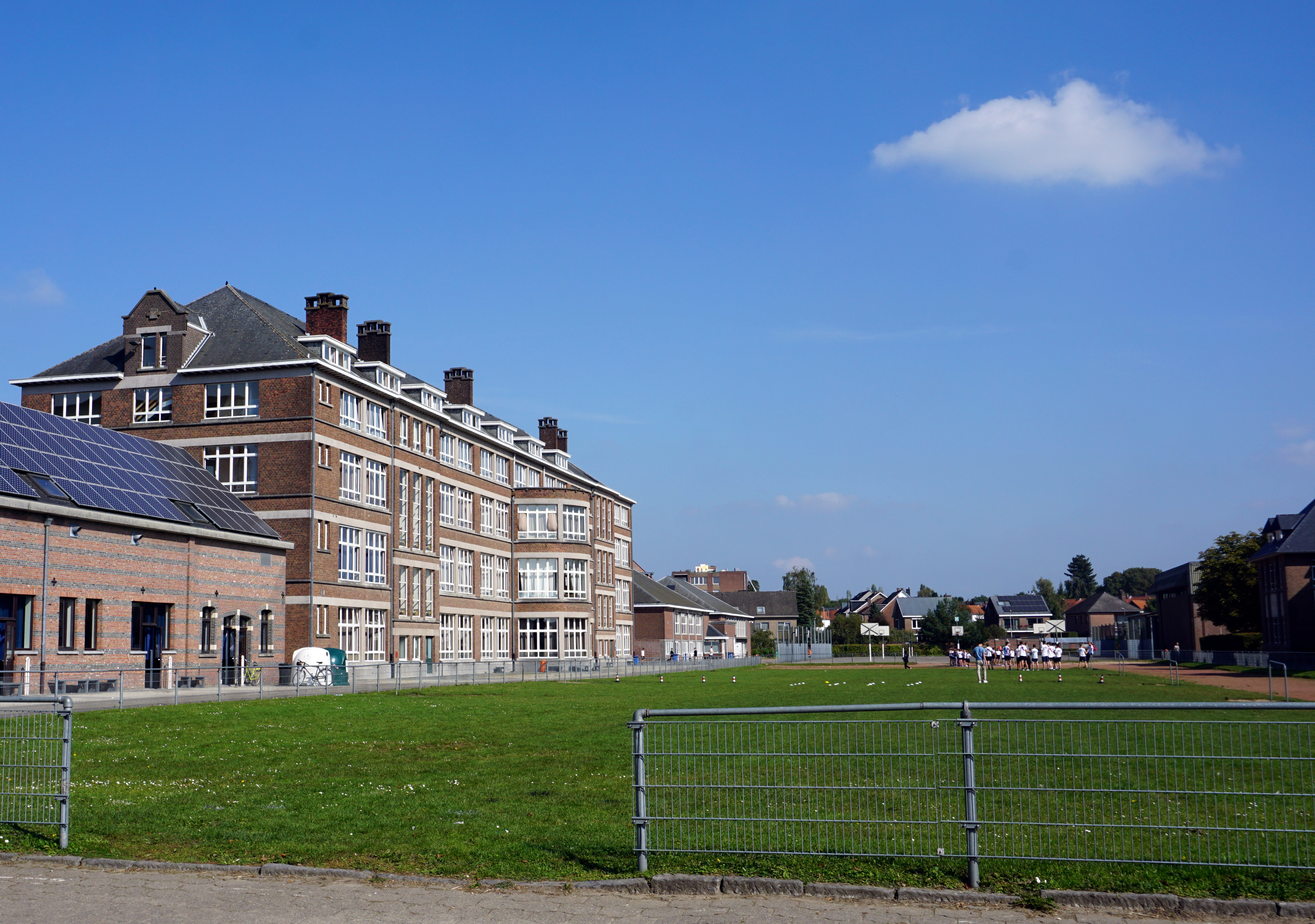 Heilig Hartinstituut Heverlee (Leuven, Belgium)